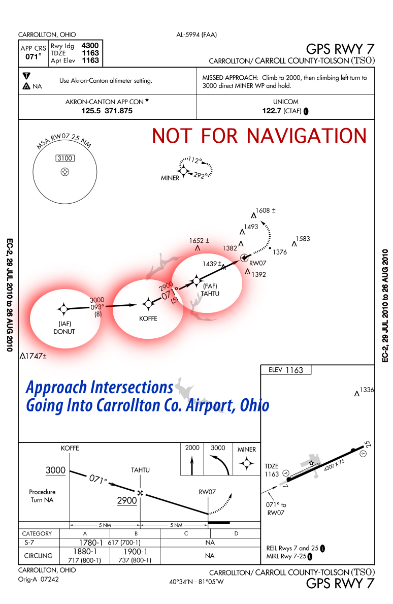 An FAA approach plate (terminal procedure) for Carrollton County Airport, Ohio (KTSO) highlighting several aviation intersections with memorable names.